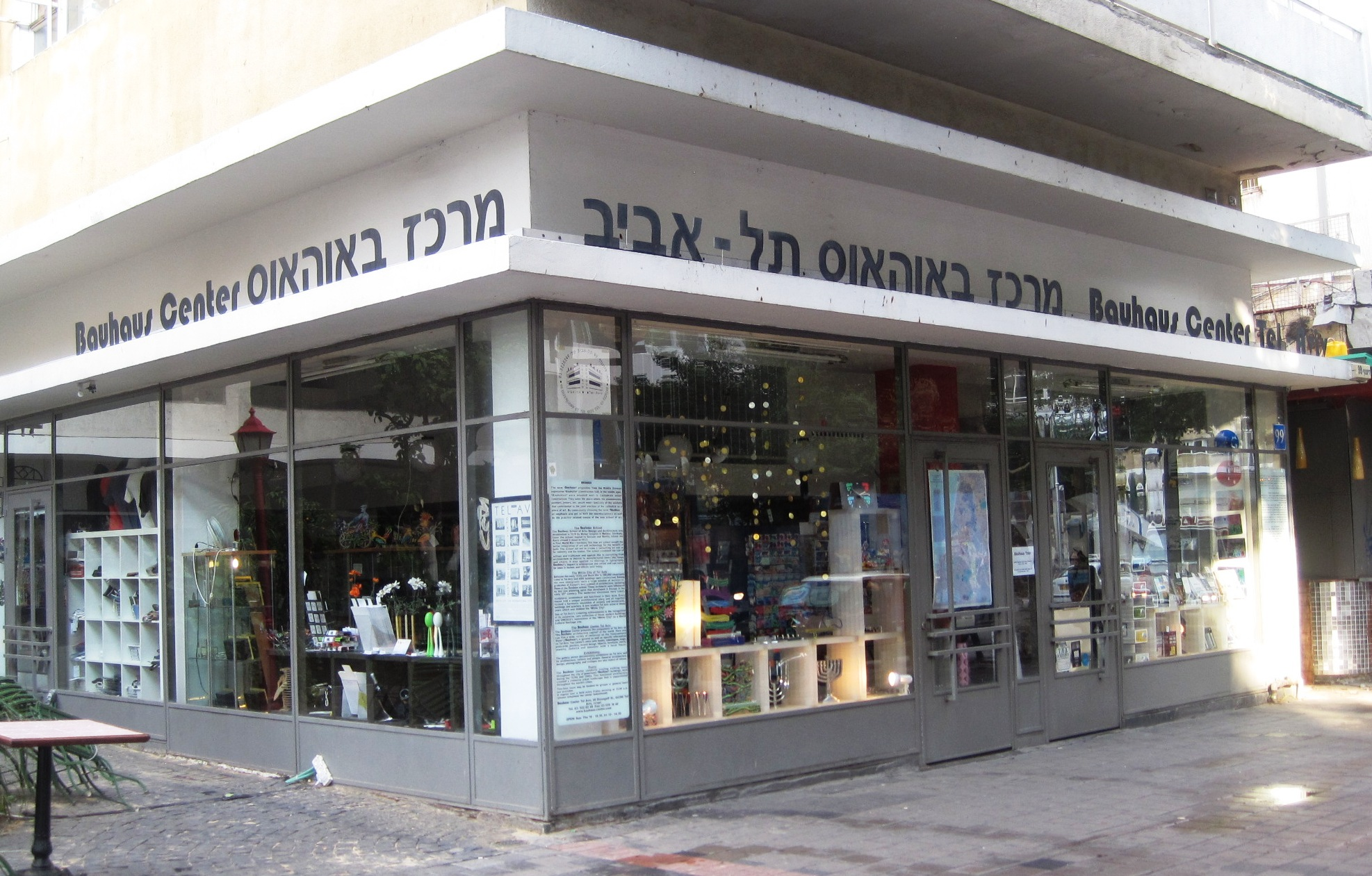 Bauhaus Center Tel Aviv